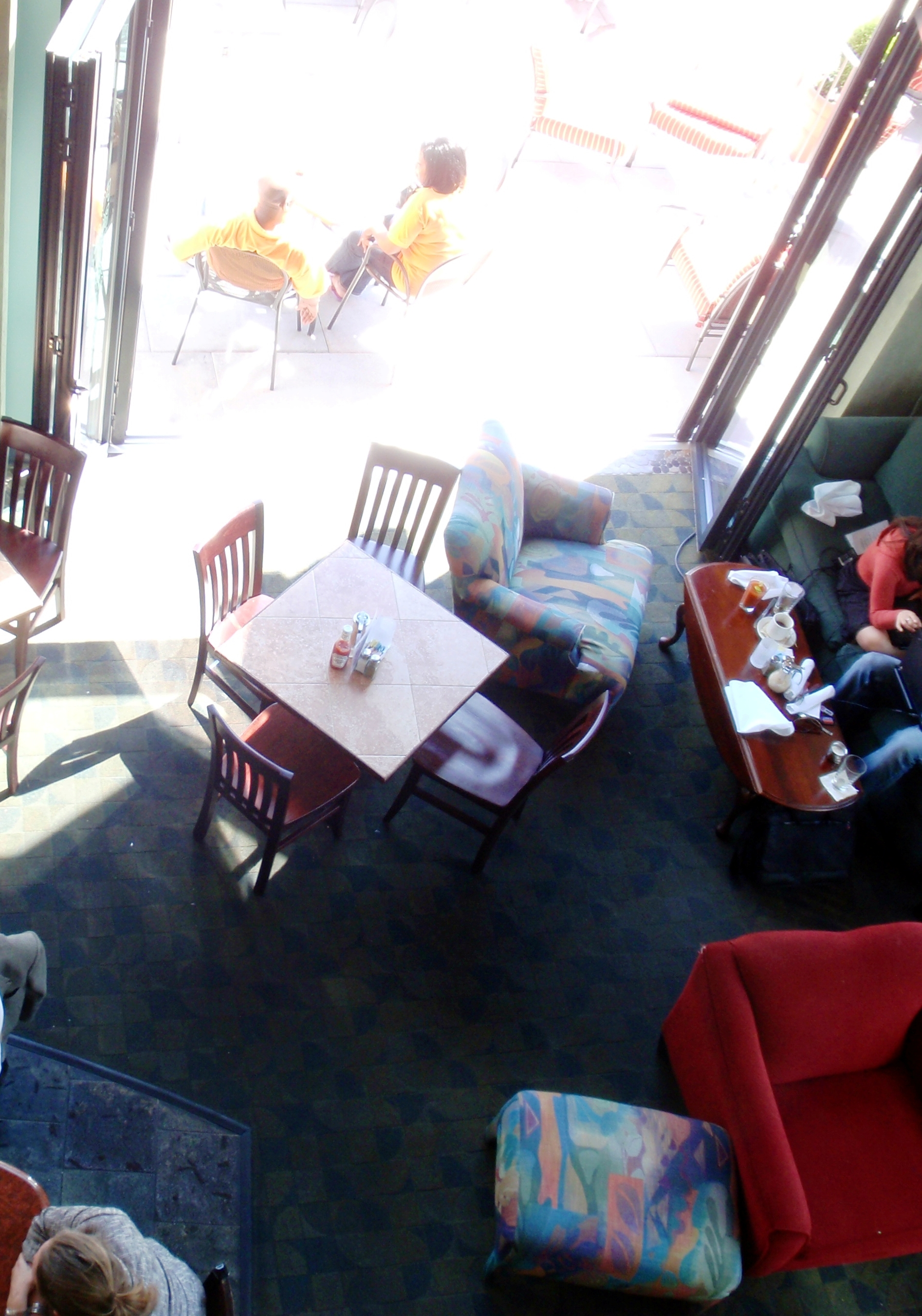 Interior(2) of Busboys and Poets, Washington, D.C.